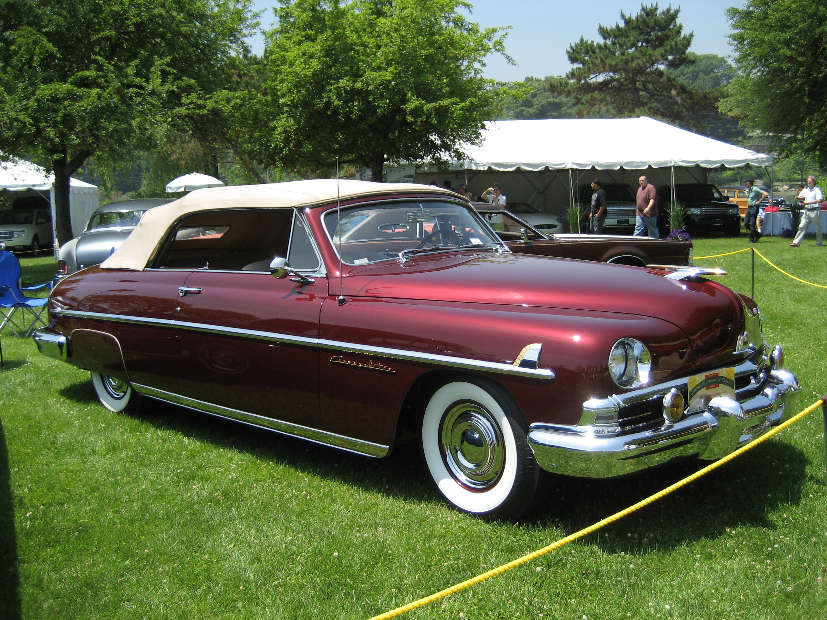 1951 Lincoln Cosmopolitan convertible photographed at the 2008 Greenwich Concours d'Elegance in Greenwich, Connecticut.